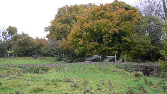 Field near Oakhanger The bridge over Oakhanger Stream to the right is on a private farm track. The public footpath crosses the field to the gate on the left.